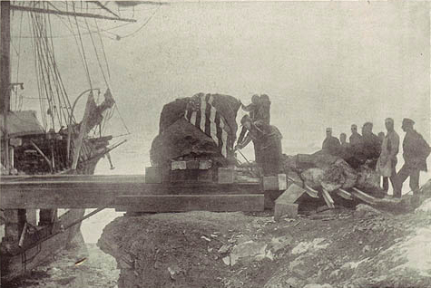 Ahnighito Meteorite into the ship